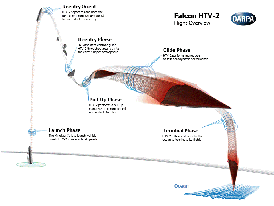 Flight profile of HTV-2